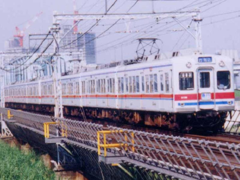 Keikyu 3136 running on Arakawa river bridge between Yahiro and Yotsugi